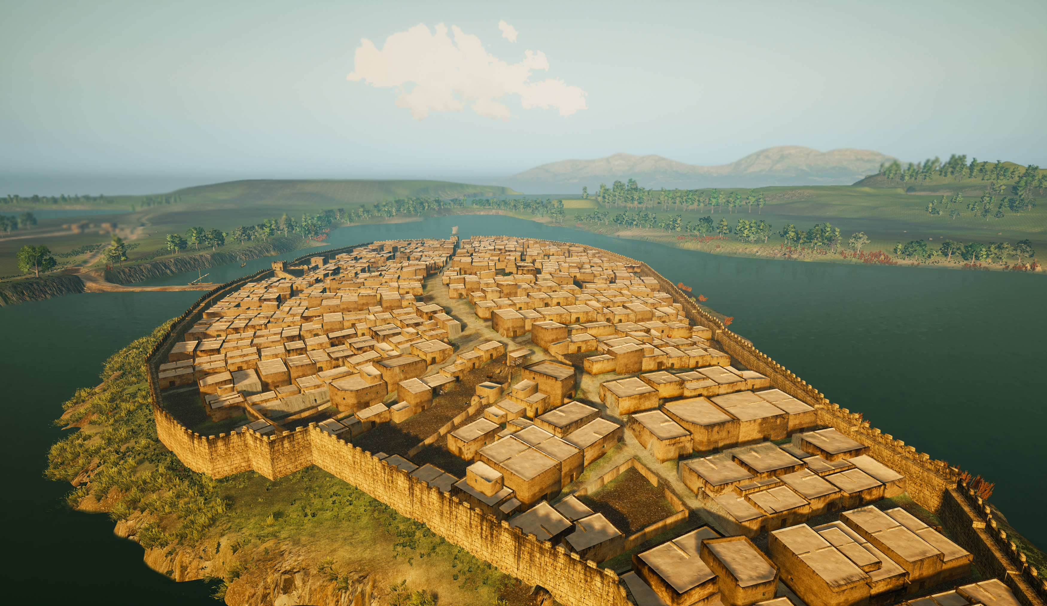 Vista aèria de la trama urbana de l’Illa d’en Reixac, rodejada per l’estany i amb el massís del Montgrí al fons.